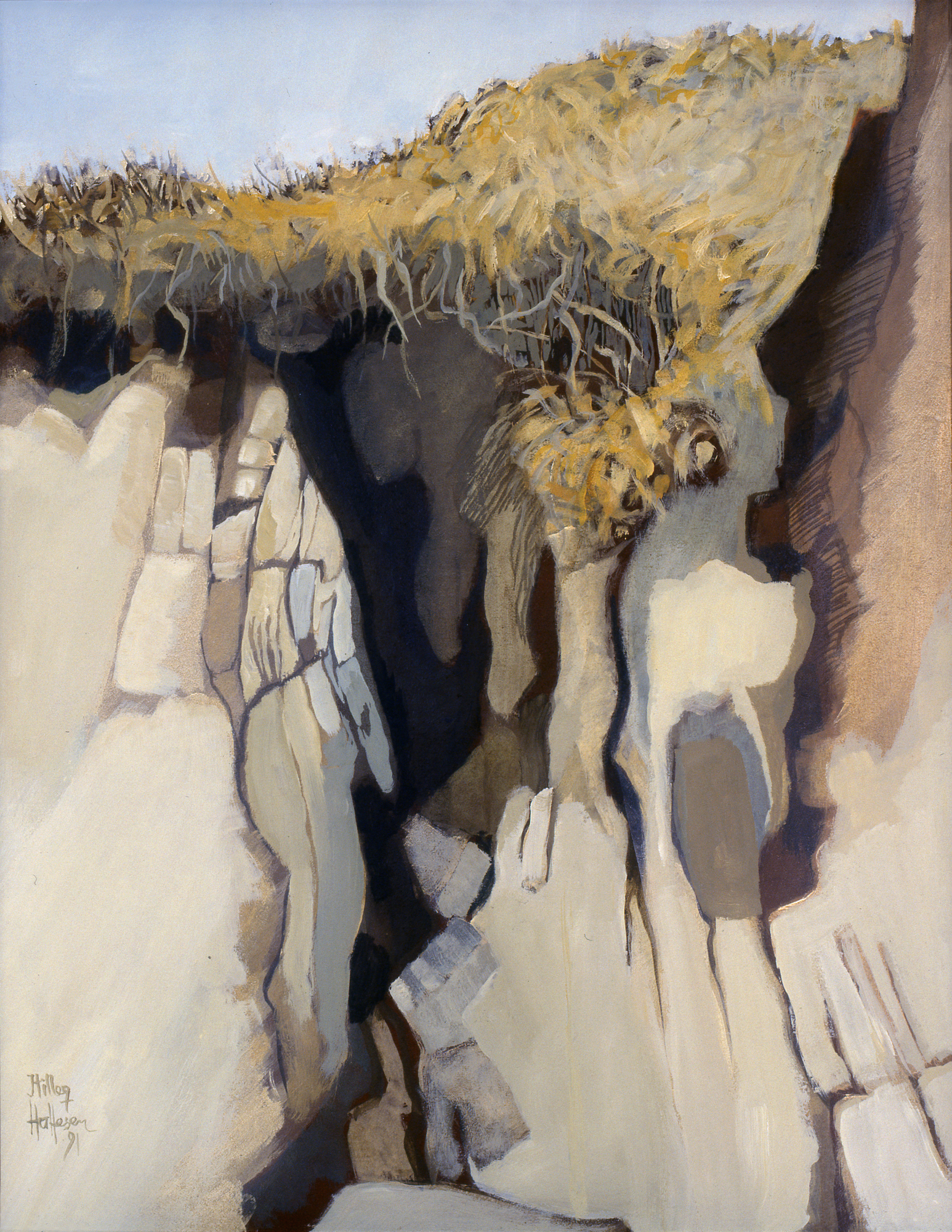 At Ililleq in Greenland. Painting by German-Danish Artist Holger Hattesen (Flensburg 1937-1993)